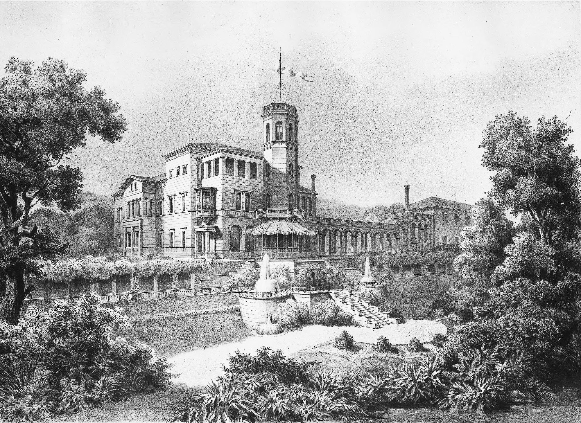 Palace in Wolany, 1861